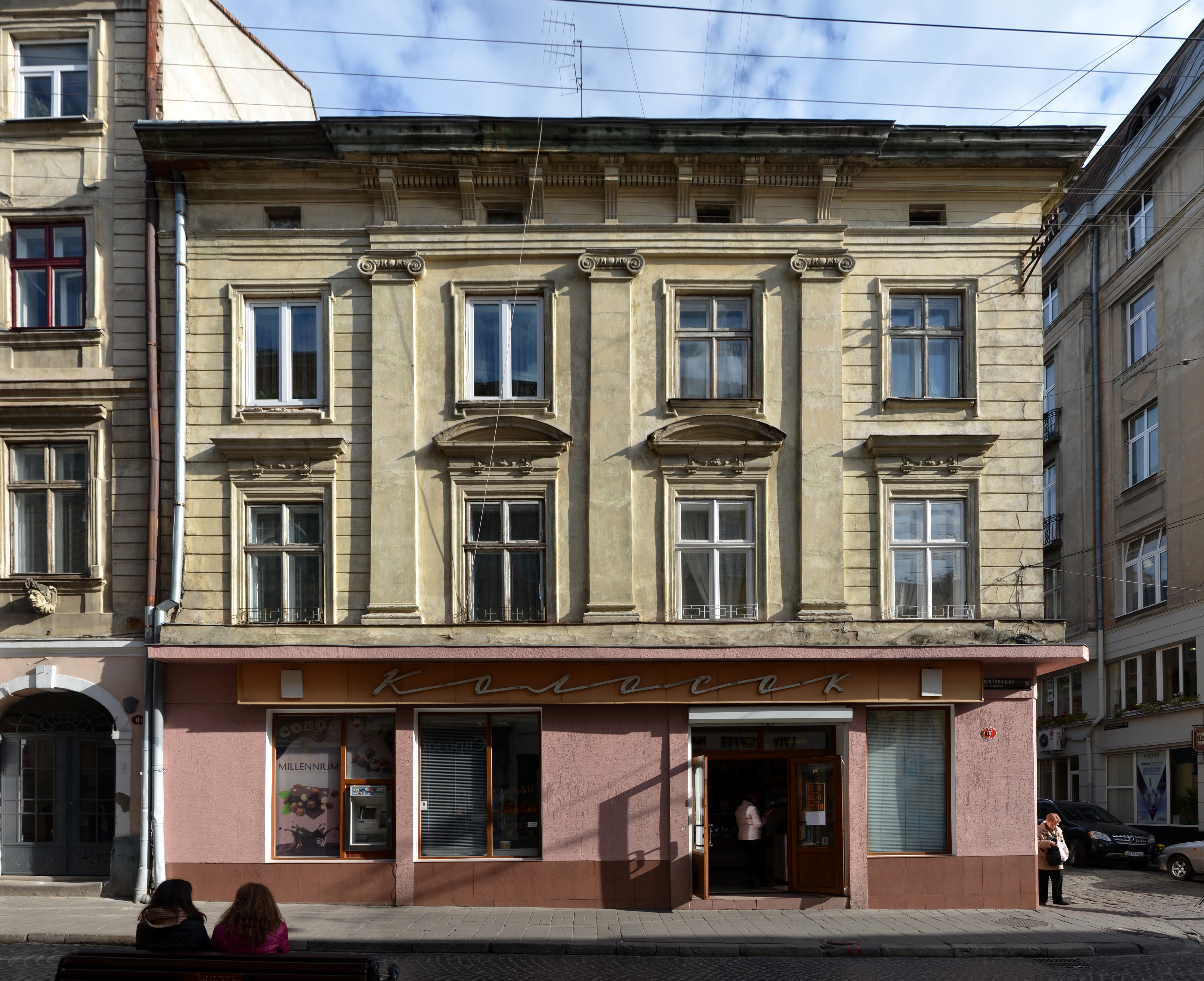 9 Brativ Rohatyntsiv Street in Lviv.